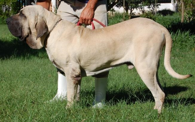 Good male fila